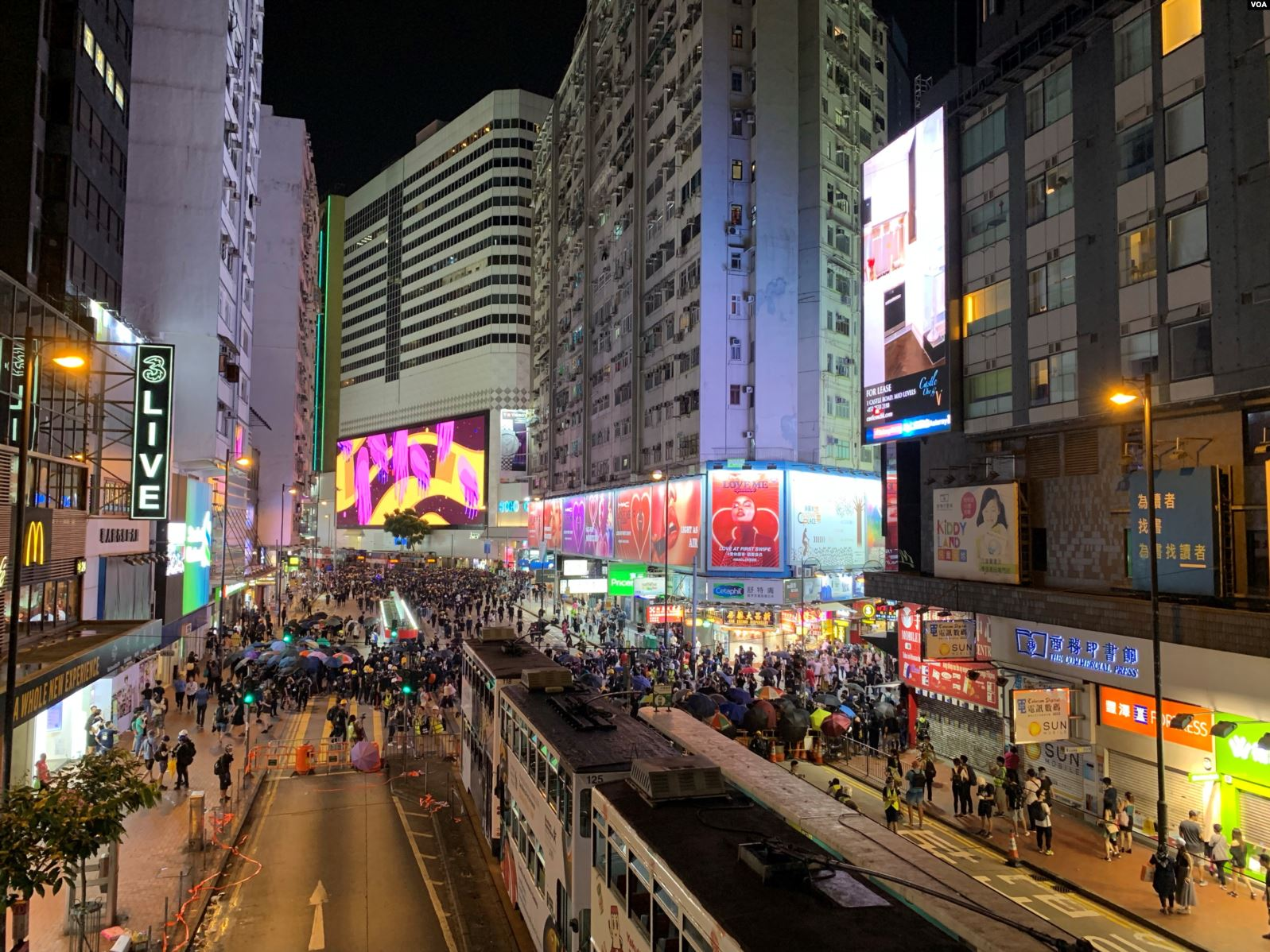 Hong Kong anti-extradition bill protesters blocking the roads of Causeway Bay at 4 August 2019 night. (VOA Photographer: Tam Ka-kei)